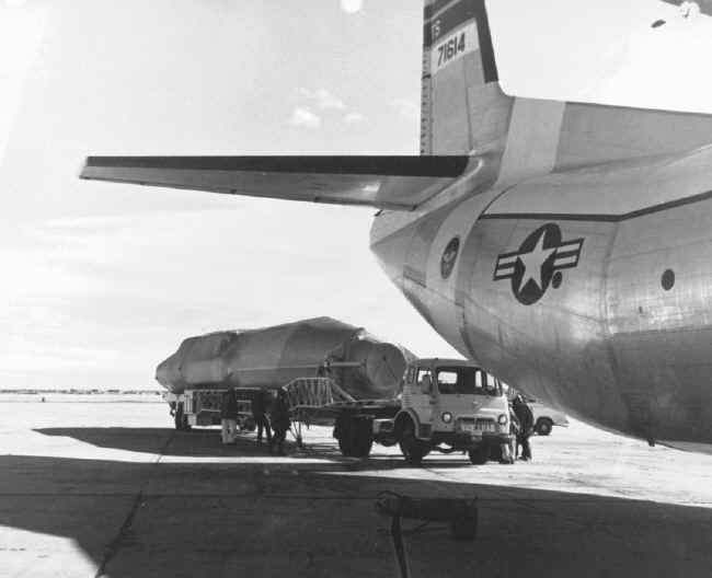 549th SMS Atlas Missle Arriving At Offut AFB NE 1961 from Douglas C-133A-35-DL Cargomaster, 57-1614